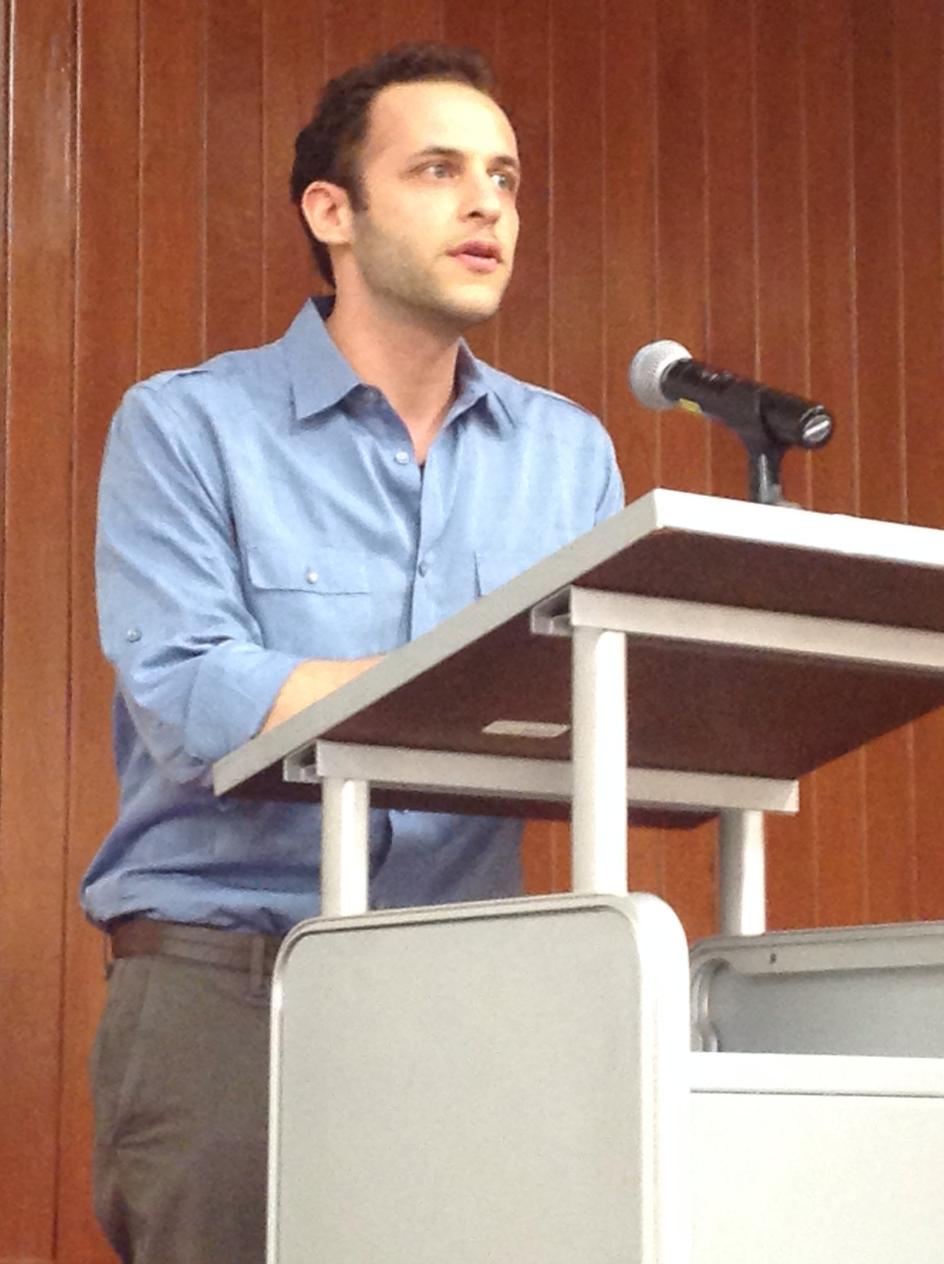 Michael Kleiman speaking at the screening of "The Web" at ITESM-CCM.